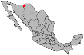 Location map of Janos, México.